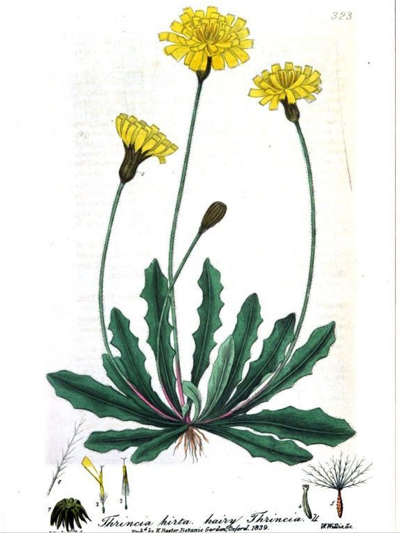 Thrincia hirta, Plate 323 from "British Phaenogamous Botany"